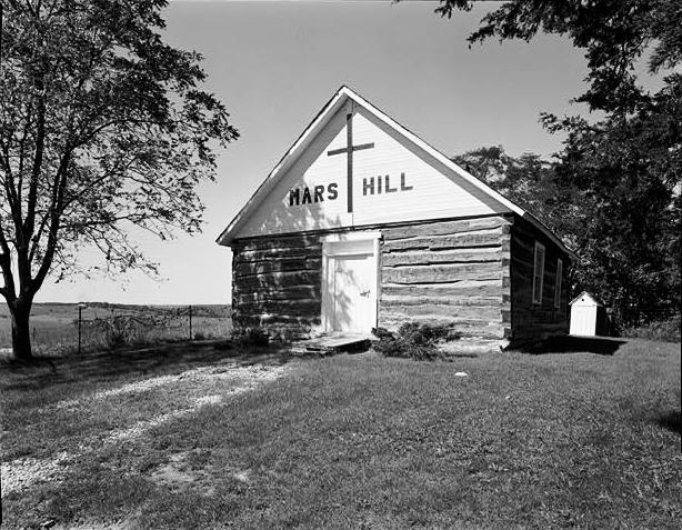 Historic photograph of the exterior of Mars Hill Church — in rural Wapello County, Iowa. Log structure listed on the National Register of Historic Places. Image courtesy of federal HABS—Historic American Buildings Survey in Iowa project.